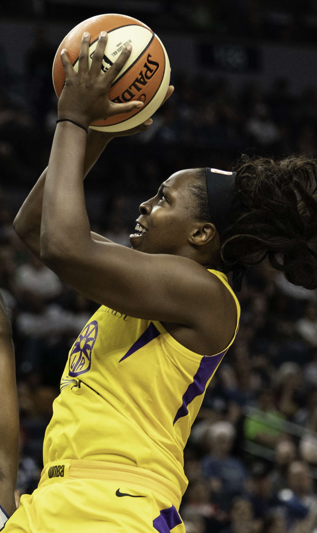 Chelsea Gray of the Los Angeles Sparks